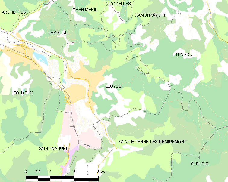 Map of French municipality Éloyes